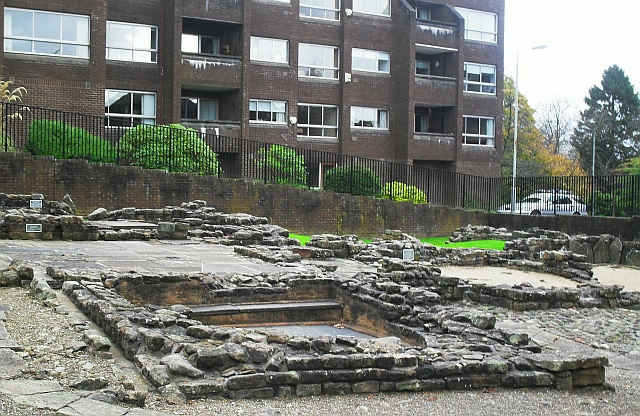 Roman Bath House The remains of a Roman Bath House beside the Antonine Wall.